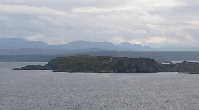 Horse Island in the Summer Isles, Scotland. Looking SW across Horse Sound from Badenscaillie.